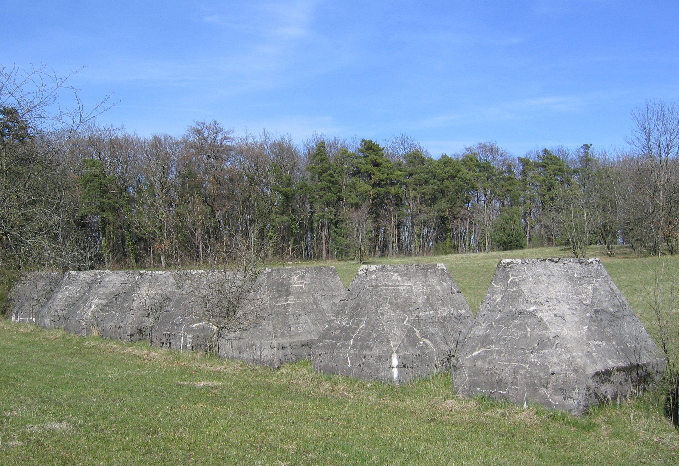 Part of the Toblerone line near Gland (Switzerland).